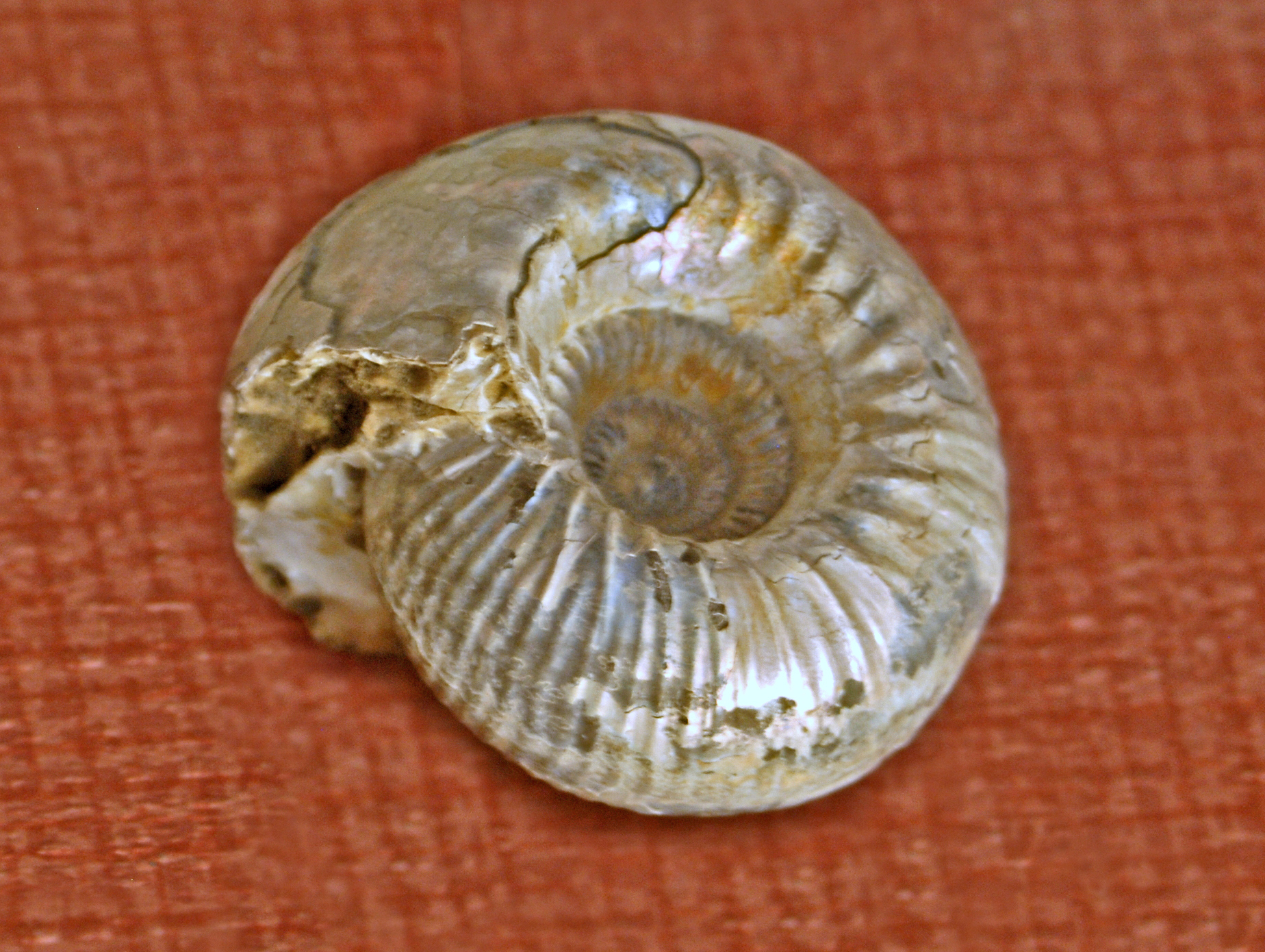 Fossil of Cadoceras elatmae from Russia, on display at Gallery of Paleontology and Comparative Anatomy, Paris.